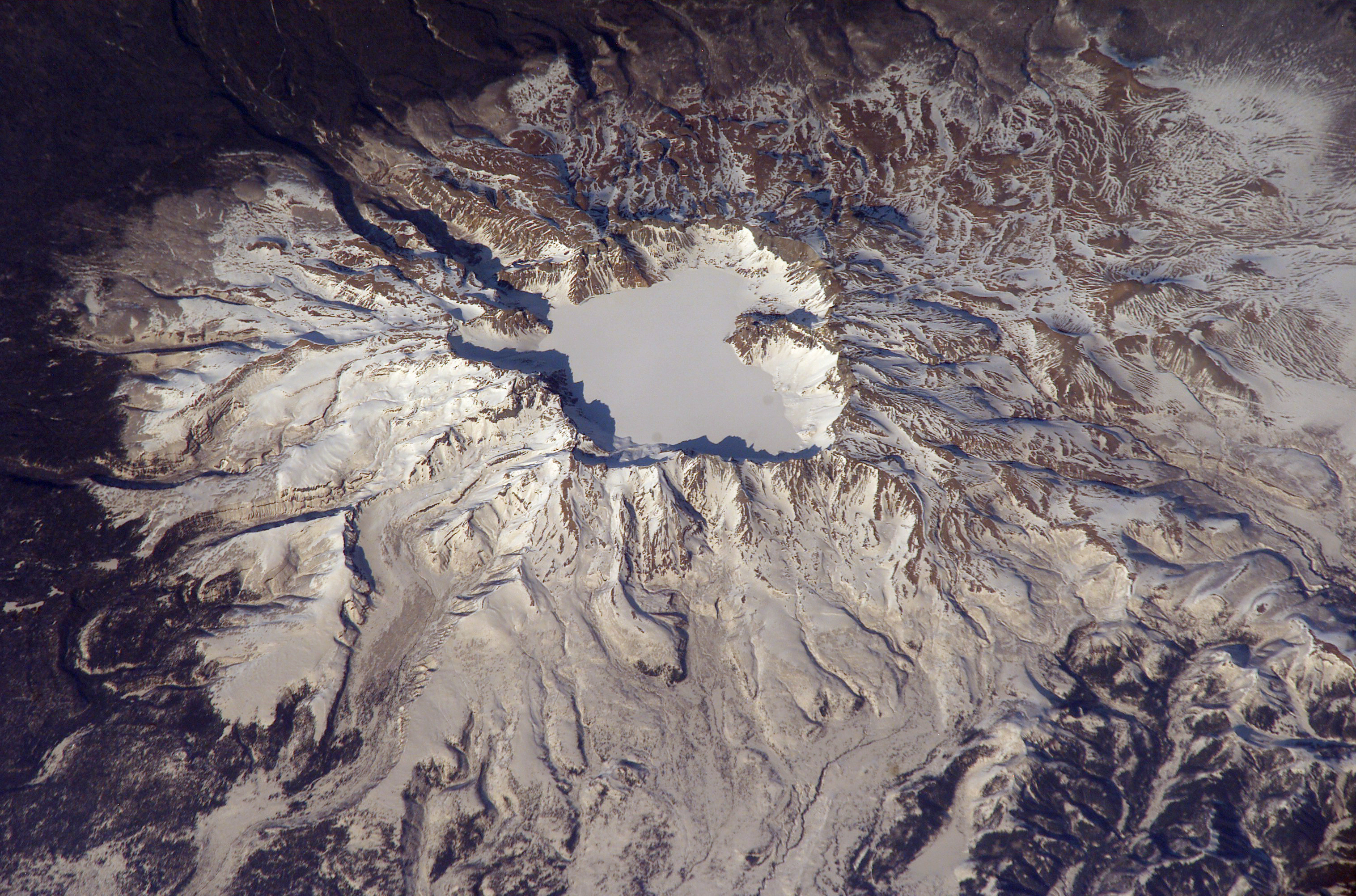 Baekdu Mountain—Baitoushan volcano (Paektu-san), in the Changbai Mountains along the border of China and North Korea in Northeast Asia. One of the largest known eruptions of the modern geologic period (the Holocene) occurred at Baitoushan Volcano (also known as Changbaishan in China and P'aektu-san in Korea) about 1000 CE, with erupted material deposited as far away as northern Japan—a distance of approximately 1,200 kilometers. The eruption also created the 4.5-kilometer-diameter, 850-meter-deep summit caldera of the volcano, which is now filled with the waters of Lake Tianchi (Sky Lake). This oblique astronaut photograph was taken during the winter season, and snow highlights frozen Lake Tianchi and lava flow lobes along the southern face of the volcano (April 2003). Baitoushan last erupted in 1702, and geologists consider it to be dormant. Gas emissions were reported from the summit and nearby hot springs in 1994, but no evidence of renewed activity of the volcano was observed. The Chinese-Korean border runs directly through the center of the summit caldera, and the mountain is considered sacred by the predominantly Korean population living near the volcano. Lake Tianchi is a popular resort destination in the Changbai / Baekdu region, for its natural beauty (and alleged sightings of unidentified creatures living in its depths — similar to the legendary Loch Ness Monster in Scotland).